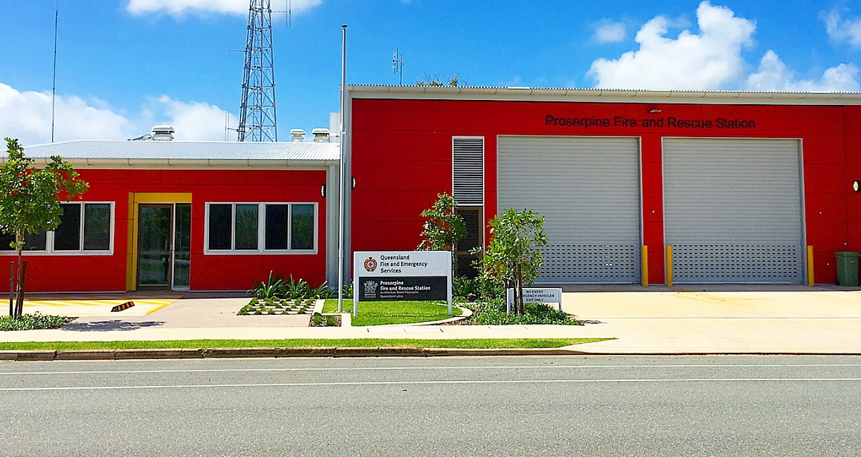 This is a photo of the Proserpine Fire & Rescue Station, completed and opened in 2018.